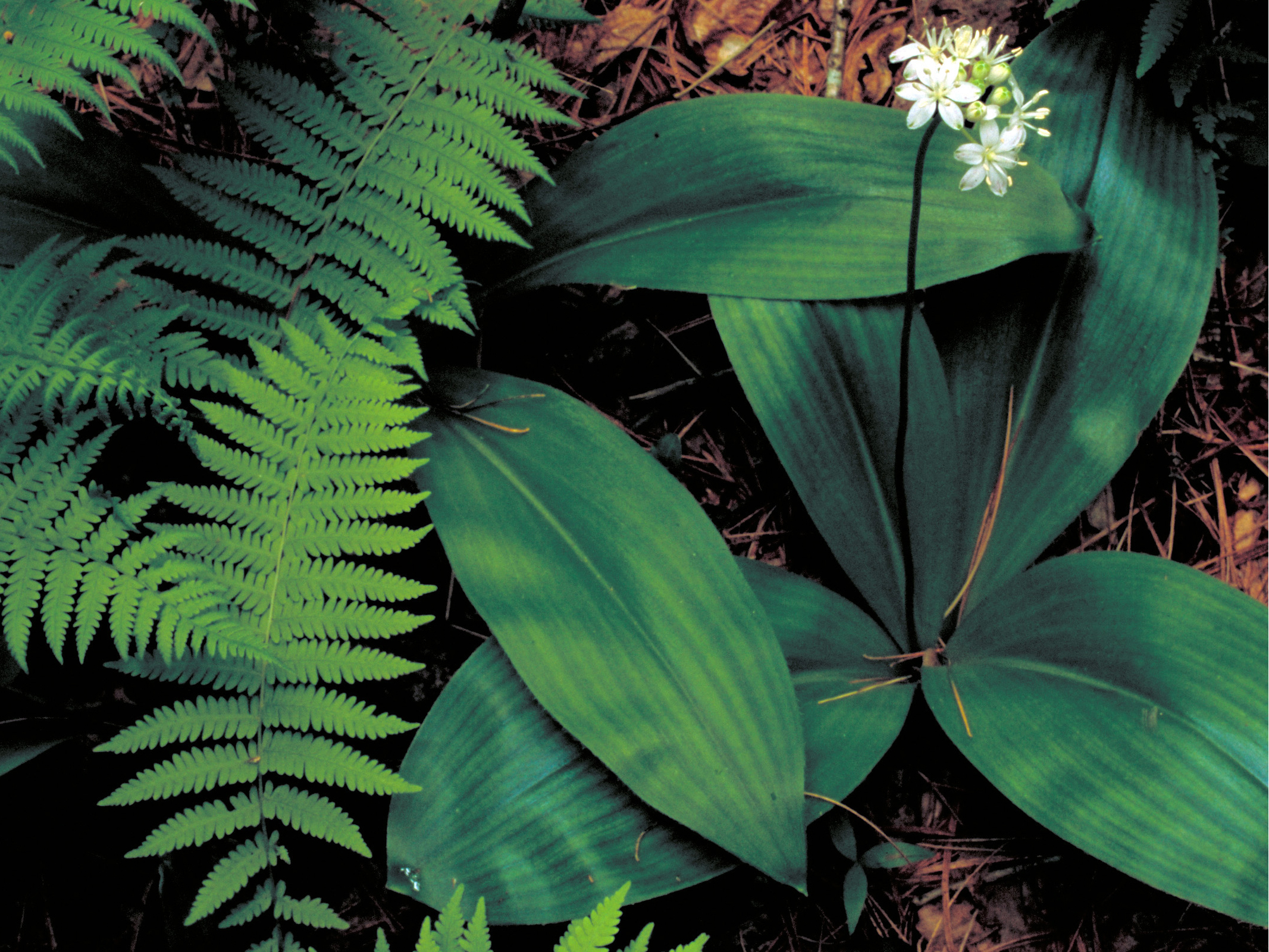 Clintonia umbellulata - Clinton's lily